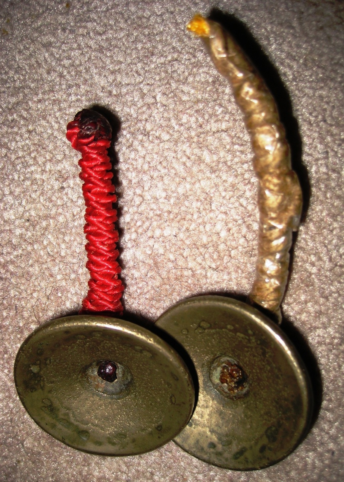 Traditional Yakshagana bells. Notice dark texture of special alloy, produces clear tone. Ragu Kattinakere, Self, Photo of my late grandfather Bhagavata Tlebailu Patel Mahabalaiah's bells taken by me.